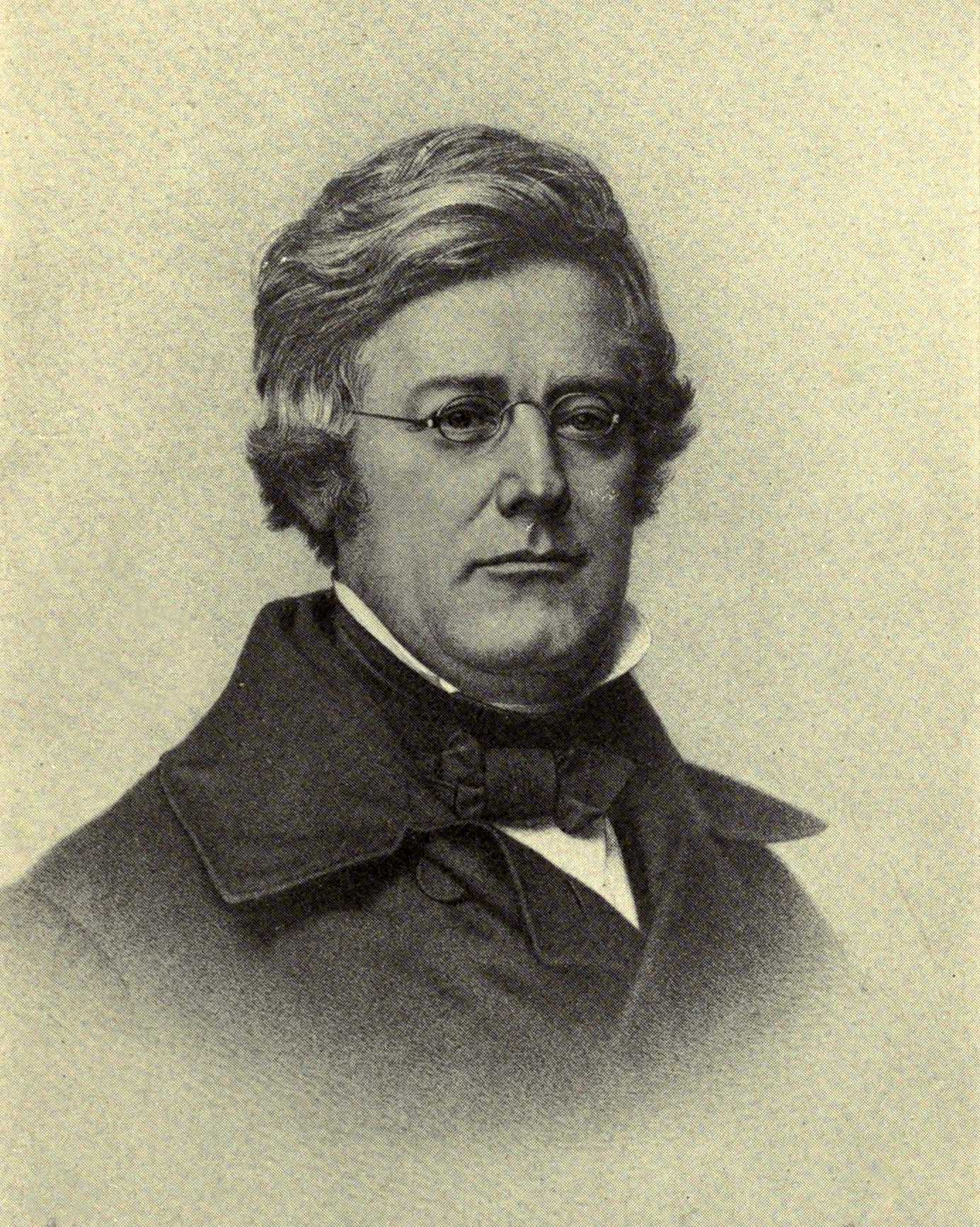 Portrait of Robert Montgomery Bird (1805-1854)